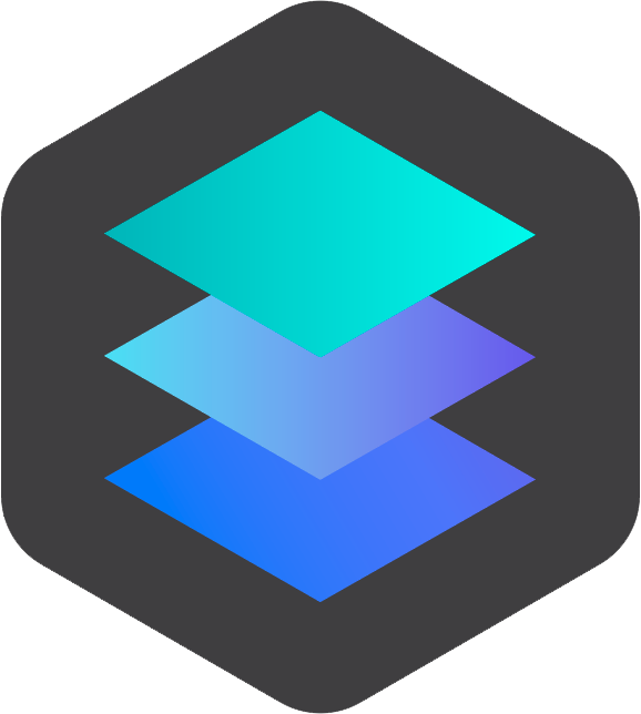 Luminar